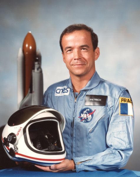 Portrait of astronaut Patrick Baudry